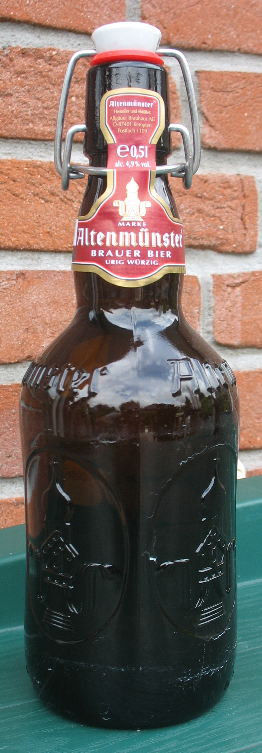 A bottle of Altenmünster Brauer beer urig-würzig